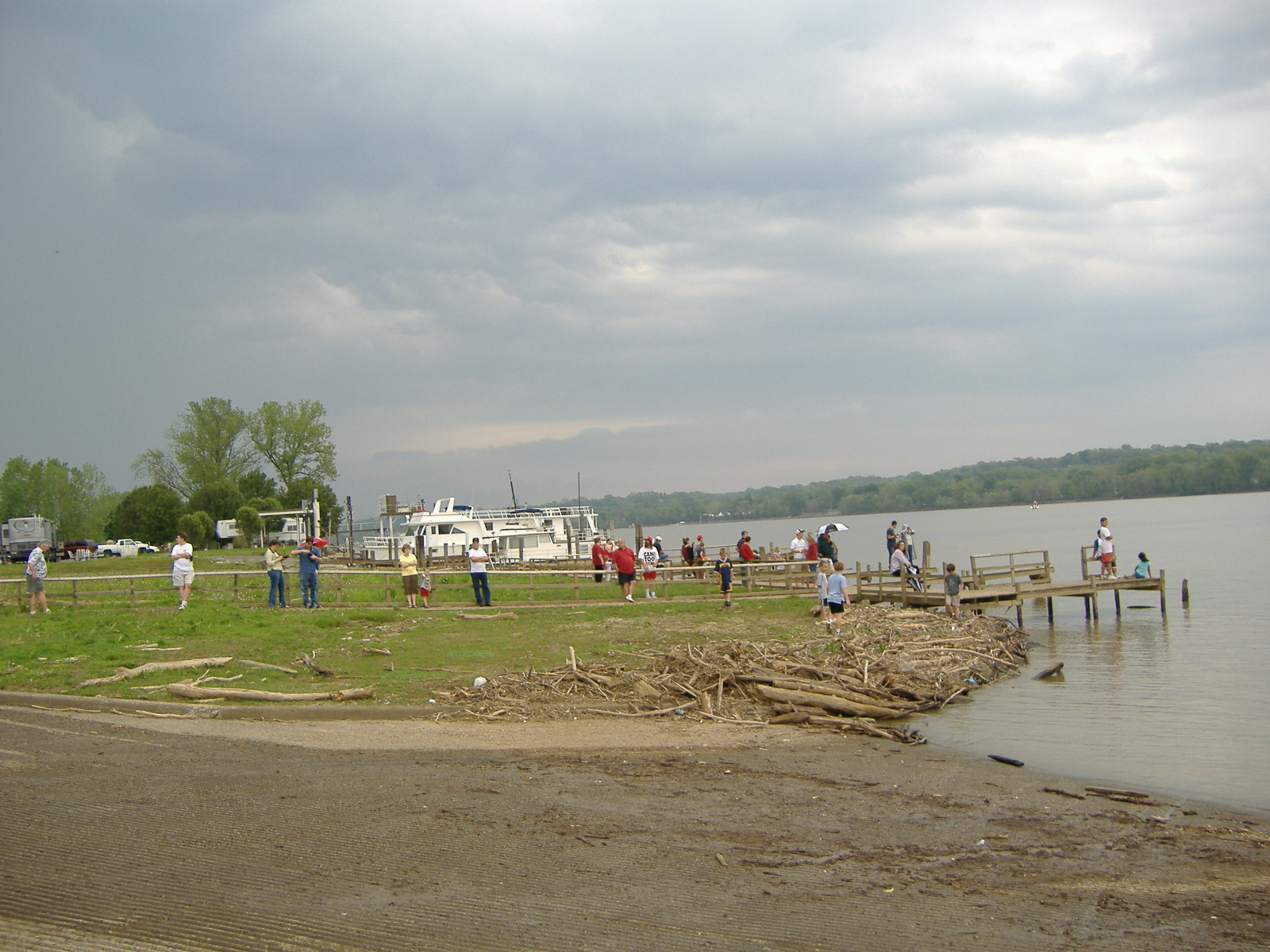 Spectators of the 2007 Great Steamboat Race at Duffy's Landing in Jeffersonville, Indiana.